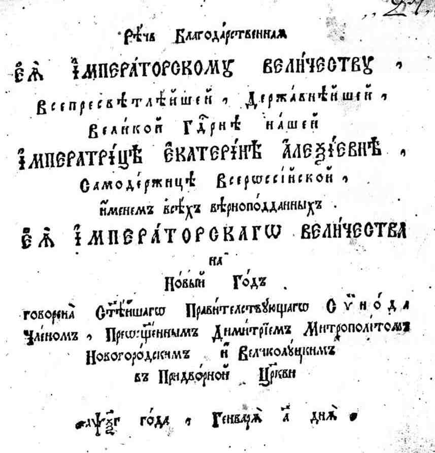 Speech of Dimitry (Sechenov)